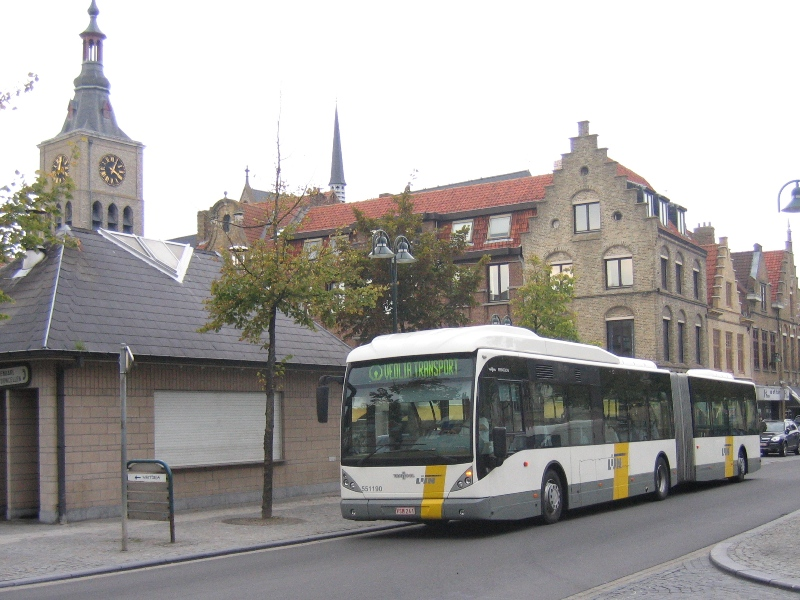 Veolia 551190 in Diksmuide.